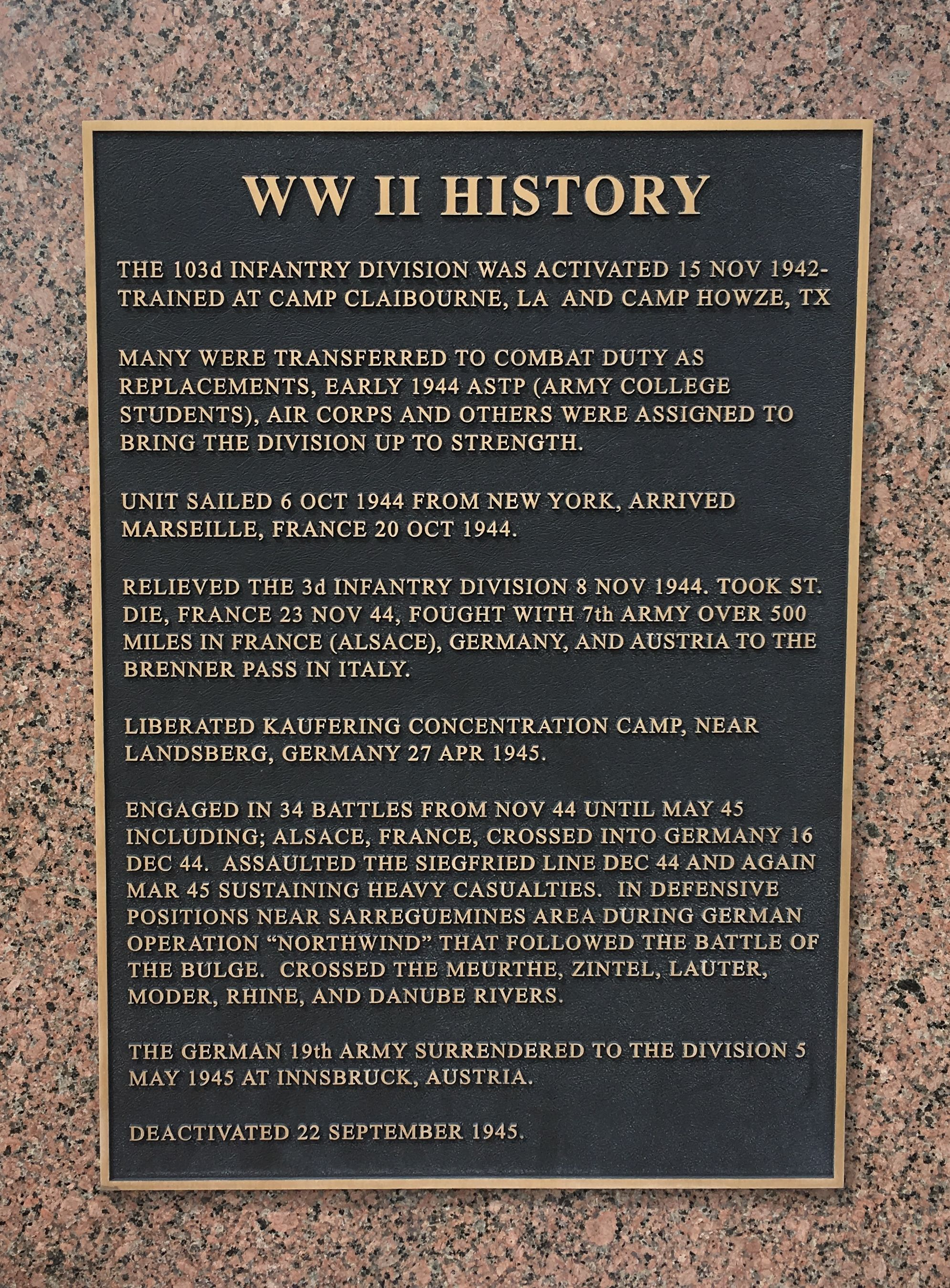 Plaque honoring the US 103rd Infantry Division in WWII. It is located at the Texas Welcome Center on I-35.